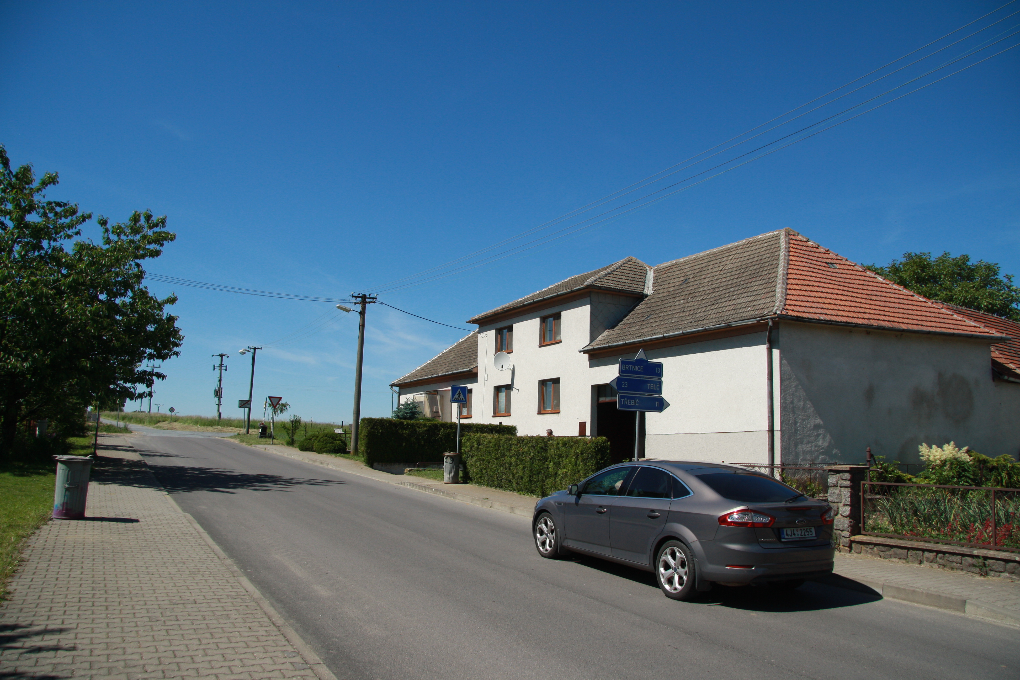 Overview of Veverka, Rokytnice nad Rokytnou, Třebíč District.